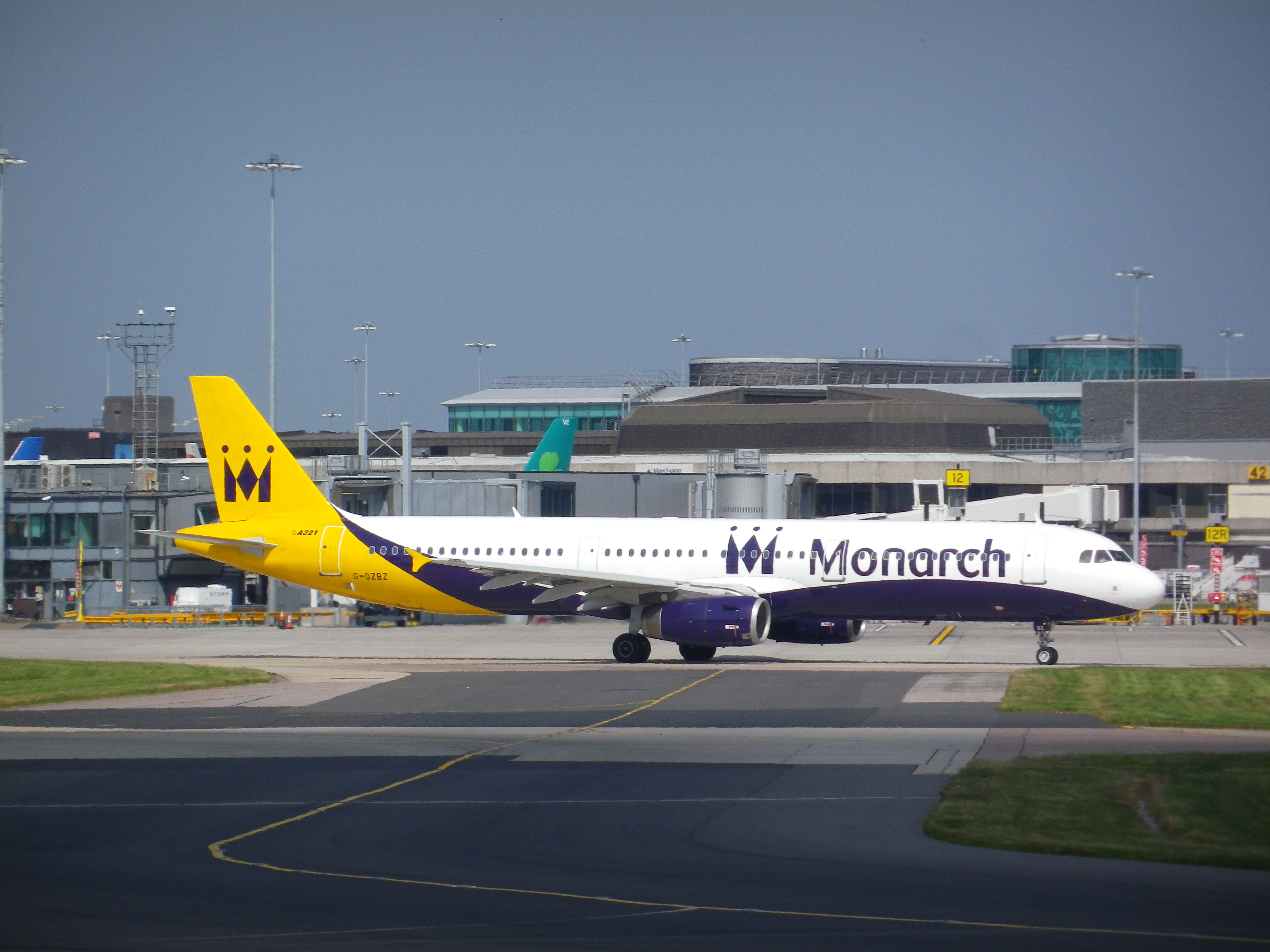 A Monarch Airbus A321-200 G-OZBZ taxiing at Manchester Airport.